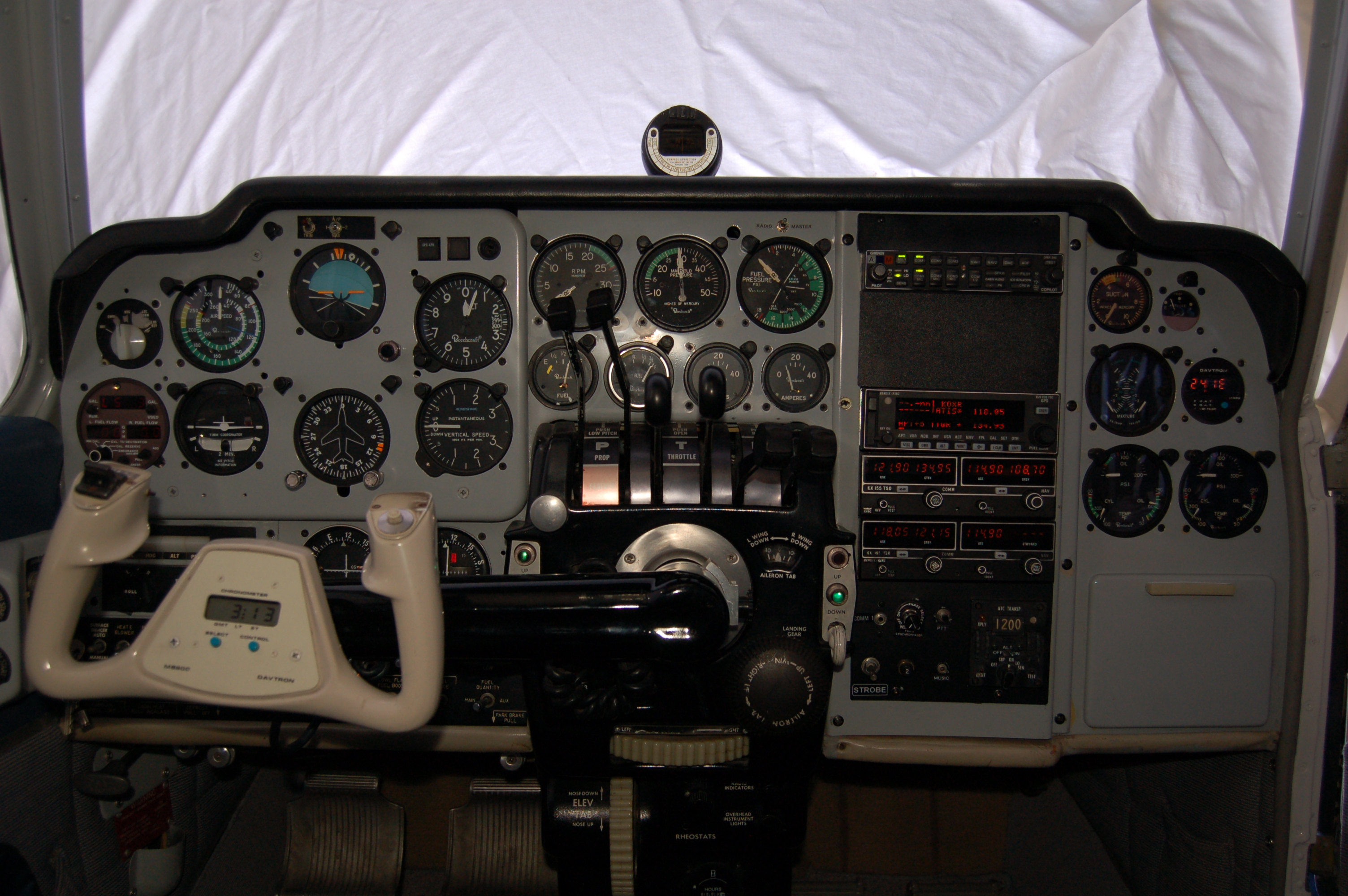 An almost unaltered cockpit from a 1964 beechcraft Baron 55